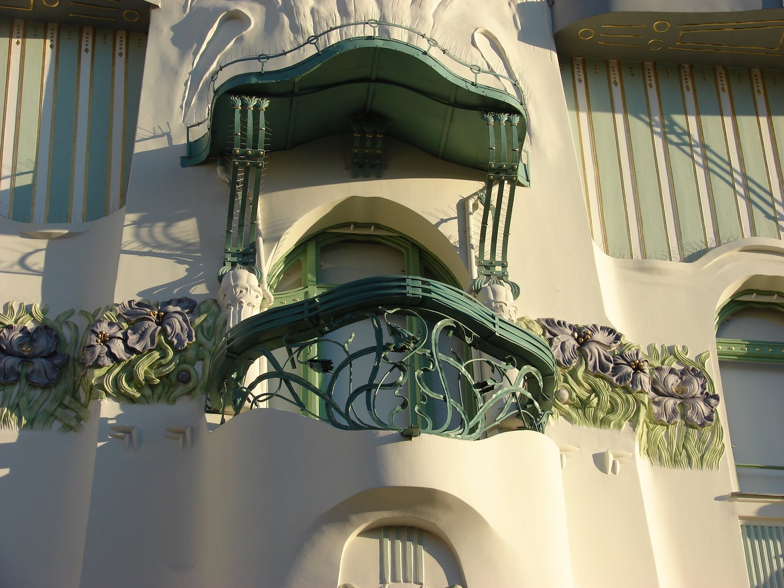 Art Nouveau balconies, wrought iron railings — Reök Palace in Szeged, Hungary.